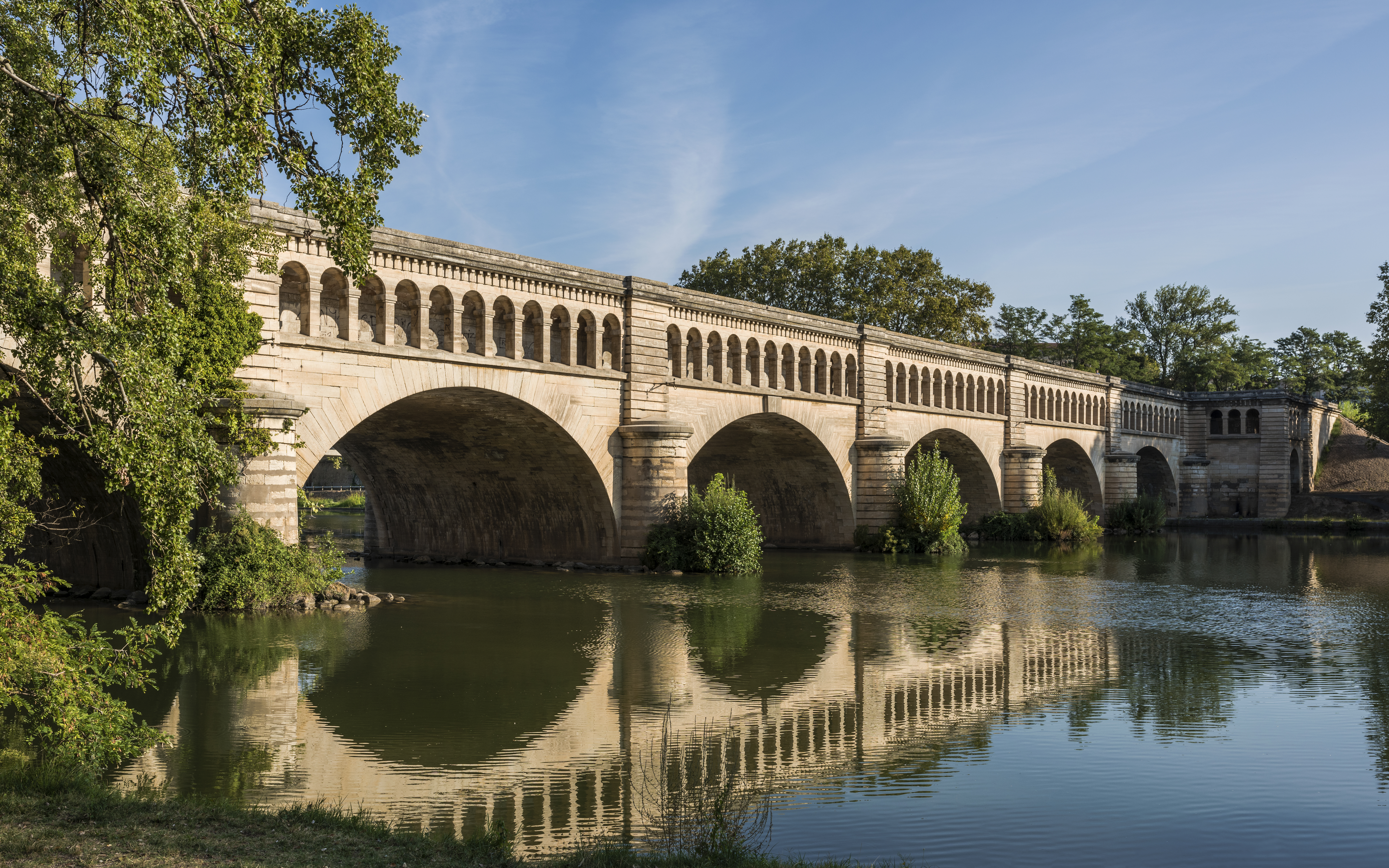 Pont-canal de l'Orb. Béziers, Hérault, France